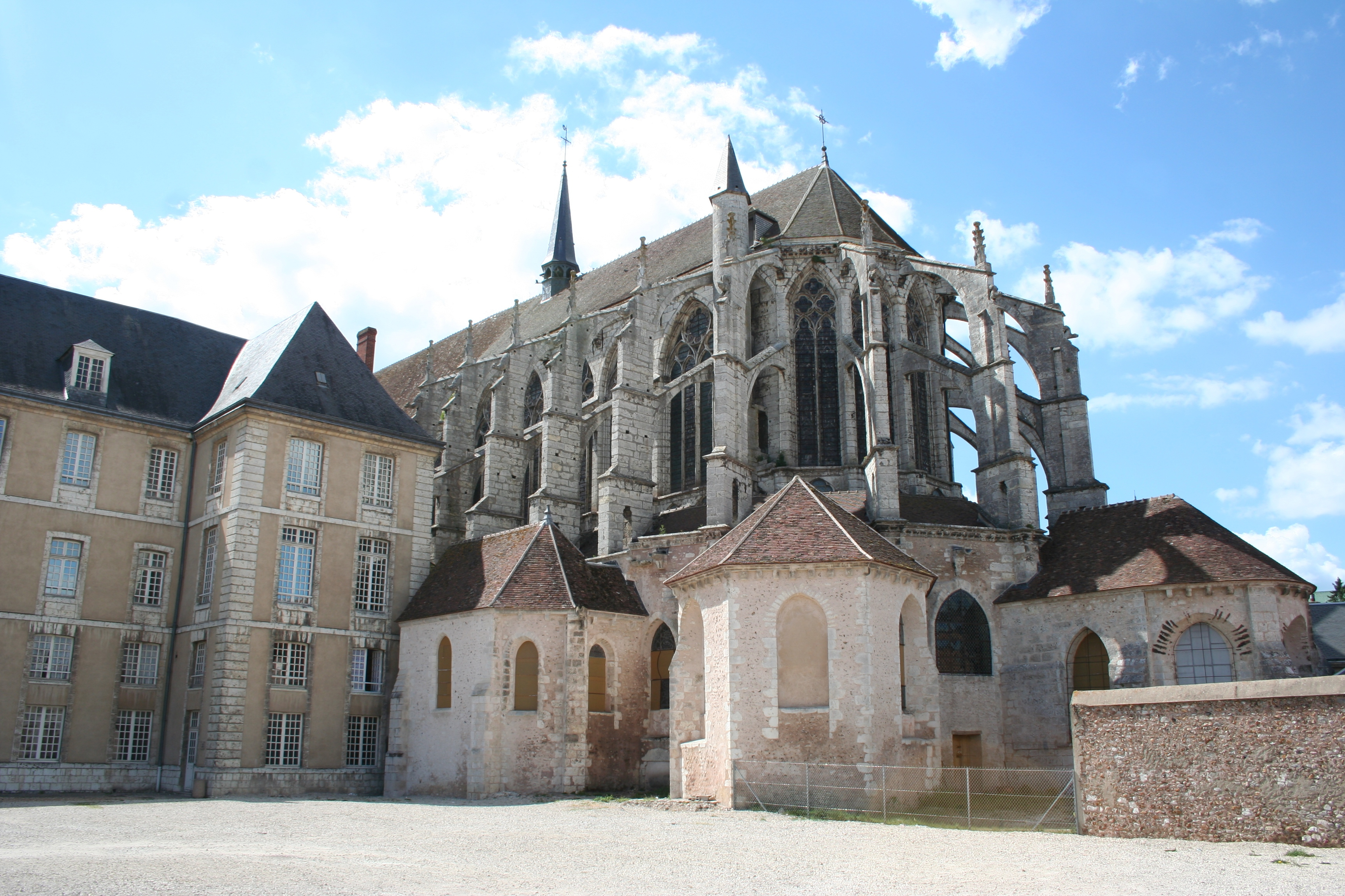 Church of Saint-Pierre, Chartres, France; east end, seen from Rue de l'Âne-Rez. Left is Lycée Marceau.